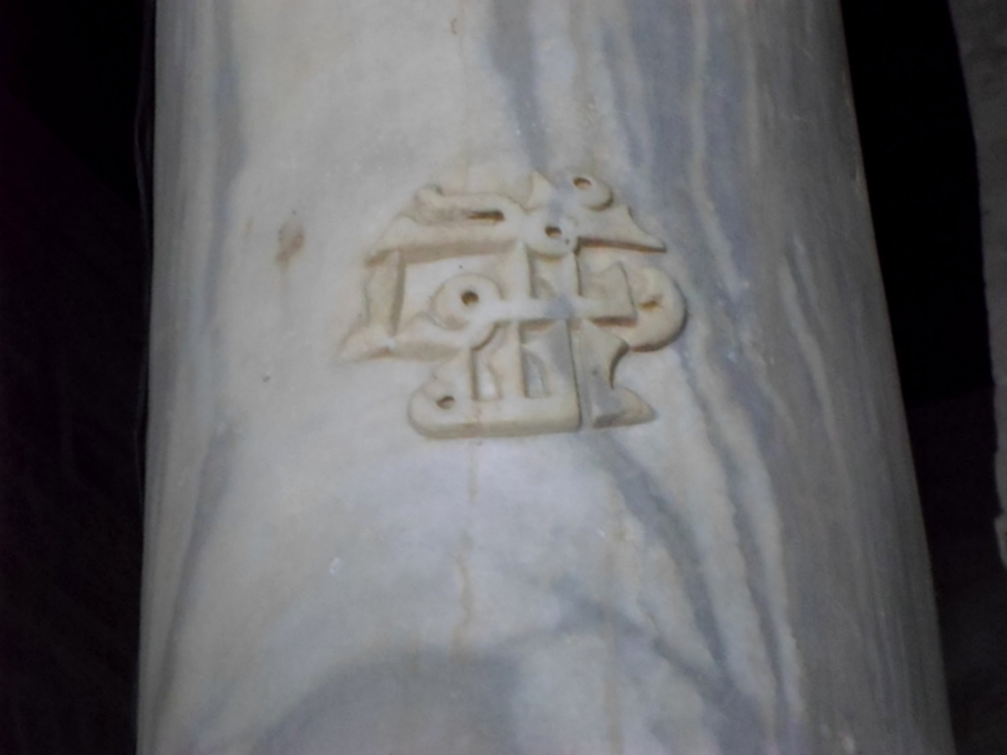 The name of the prophet Mohammad (p.b.u.him) craved in a Pillar.